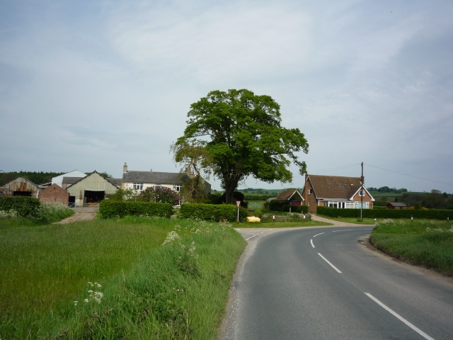 The Mile meets Miller Lane, Ousethorpe, East Riding of Yorkshire, England.Ousethorpe Farm stands at the junction of Miller Lane with The Mile.